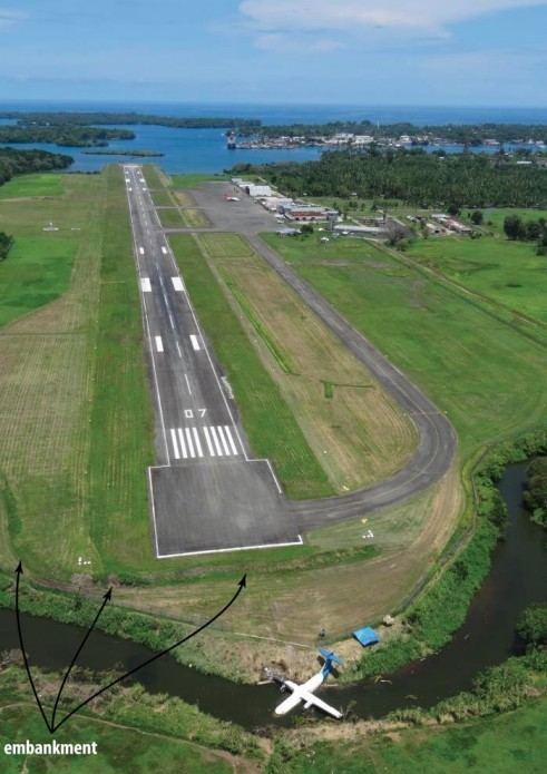 Air Niugini Flight 2900 wreckage